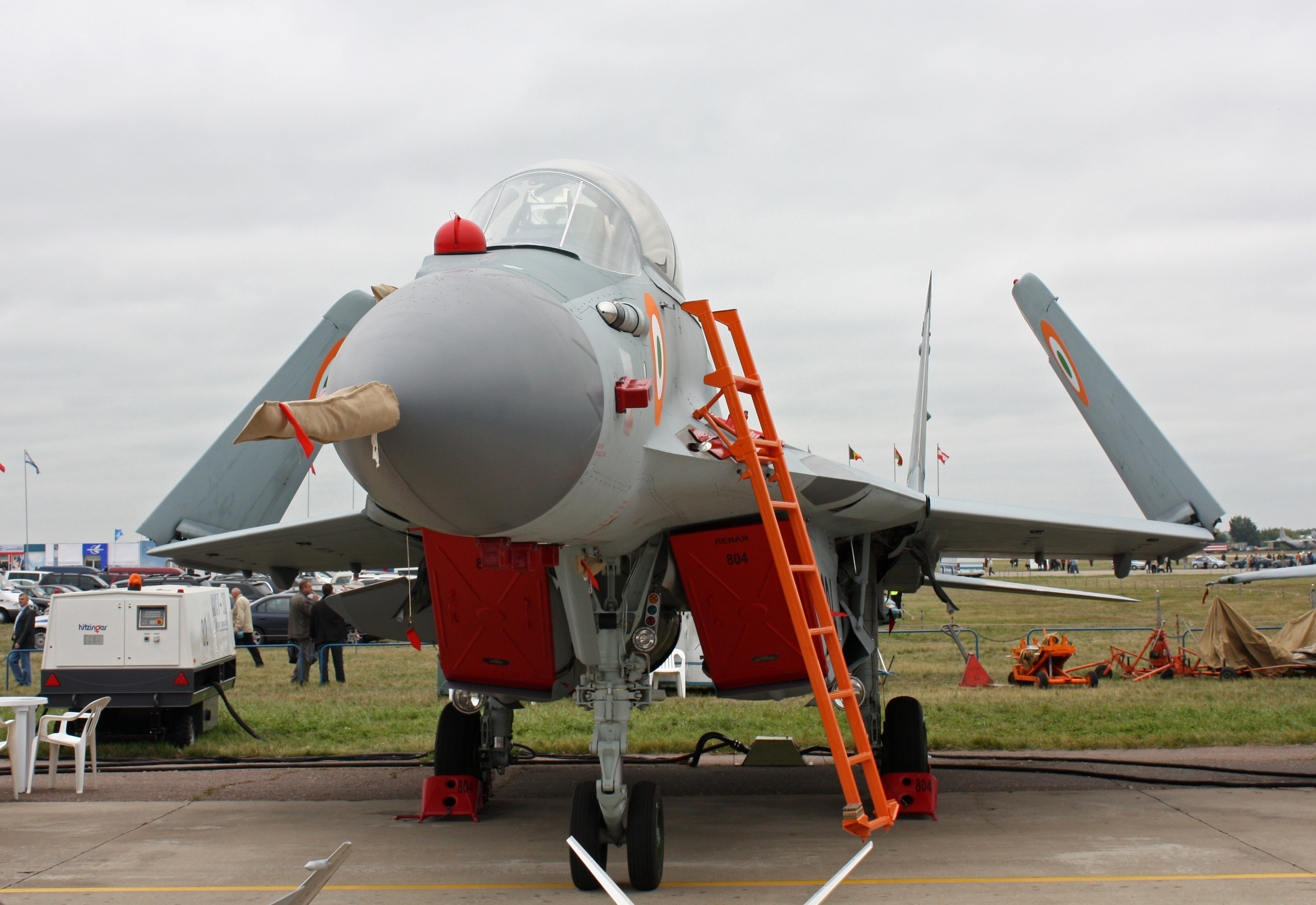 Mikoyan-i-Gurevich MiG-29K (The international aerospace salon MAKS-2009)